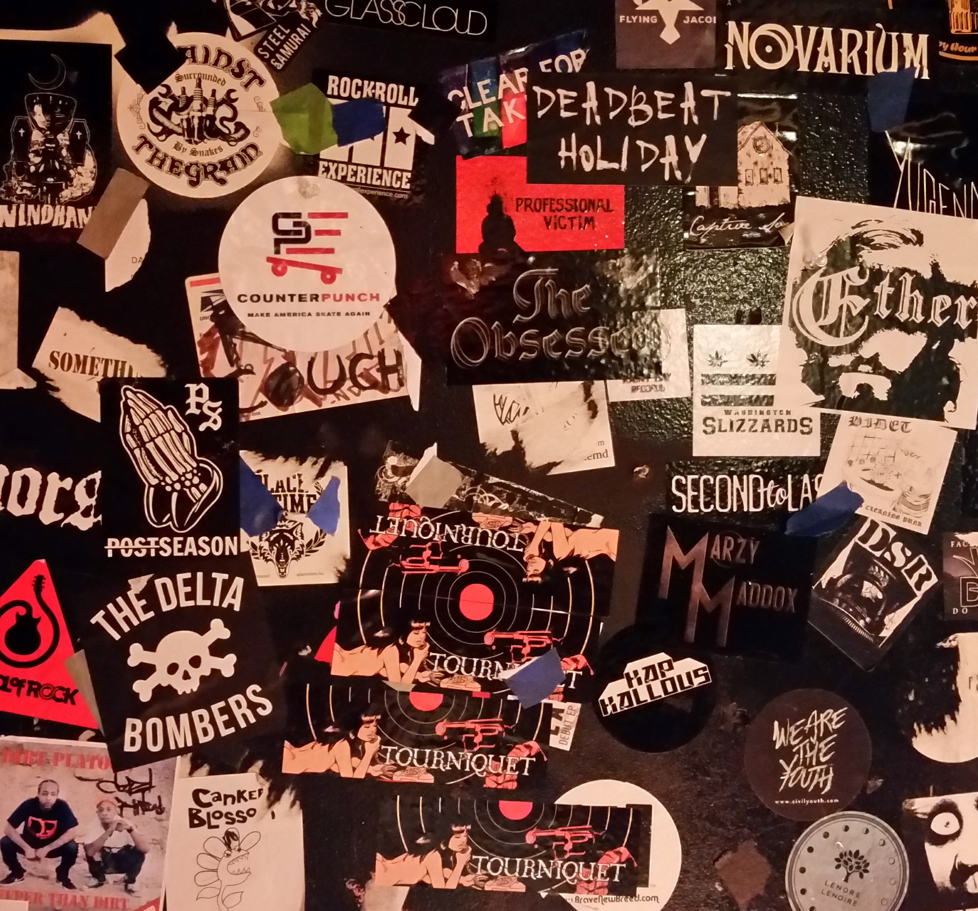 Wall inside the Ottobar, Charles Village, Baltimore, MD 06082017 LHCollins